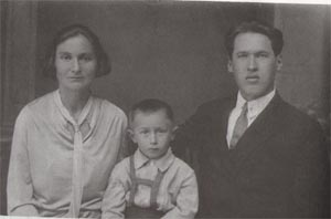 Belarusian poet and linguist Uładzimier Duboŭka with his wife Maria Klaus and son Algerd Беларуская (тарашкевіца): Уладзімер Дубоўка з жонкай і сынам Альгердам. Яранск. 1933 г.